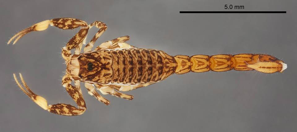 this is a Microcharmus cloudsleythompsoni